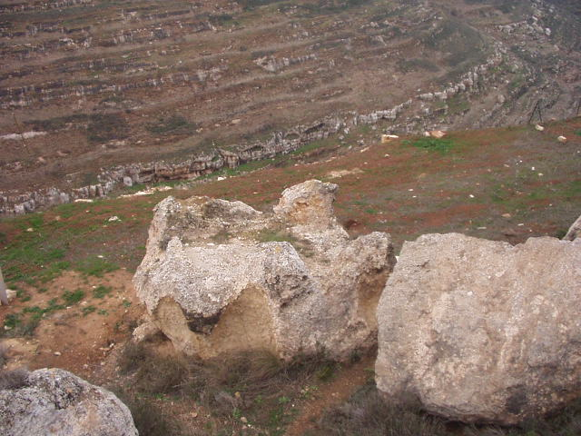 A_Rock-Hewn_Altar_Near_Shiloh2